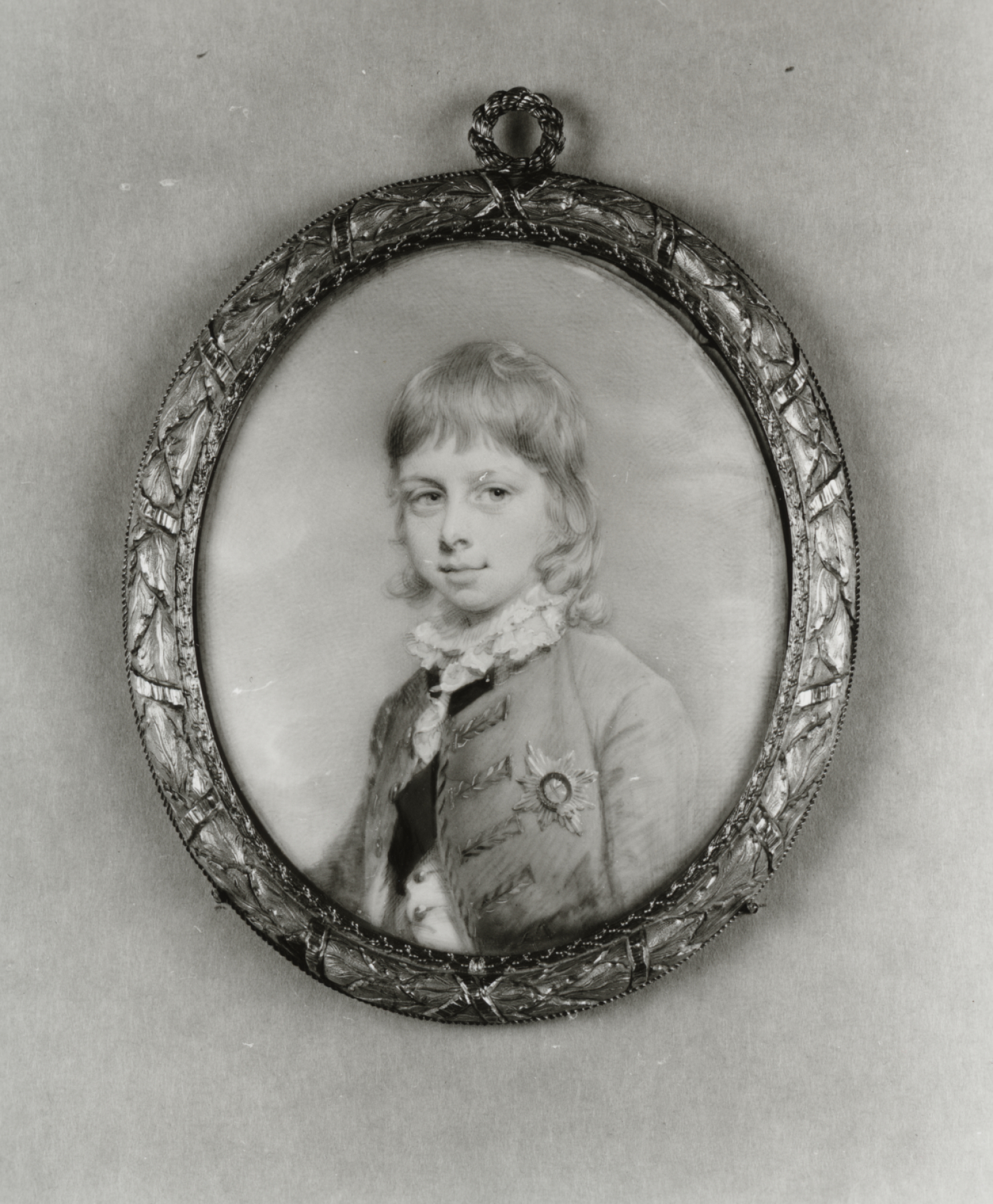 At the age of 15, the German-born Meyer was taken to London, where he studied with Christian Friedrich Zincke, a specialist in painting in enamel on copper. In 1764, he became painter in miniature to Queen Charlotte and painter in enamel to George III.